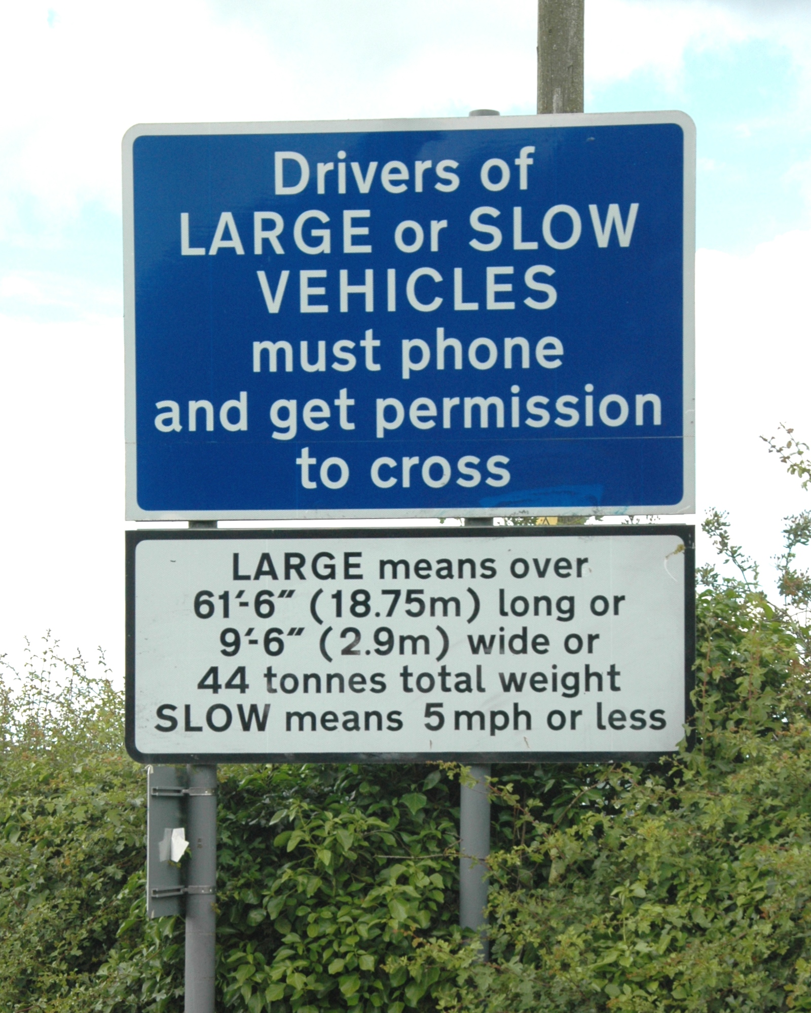 Railway level crossing, Ufton Nervet, West Berkshire: signs on southeast side of crossing for large or slow vehicles.